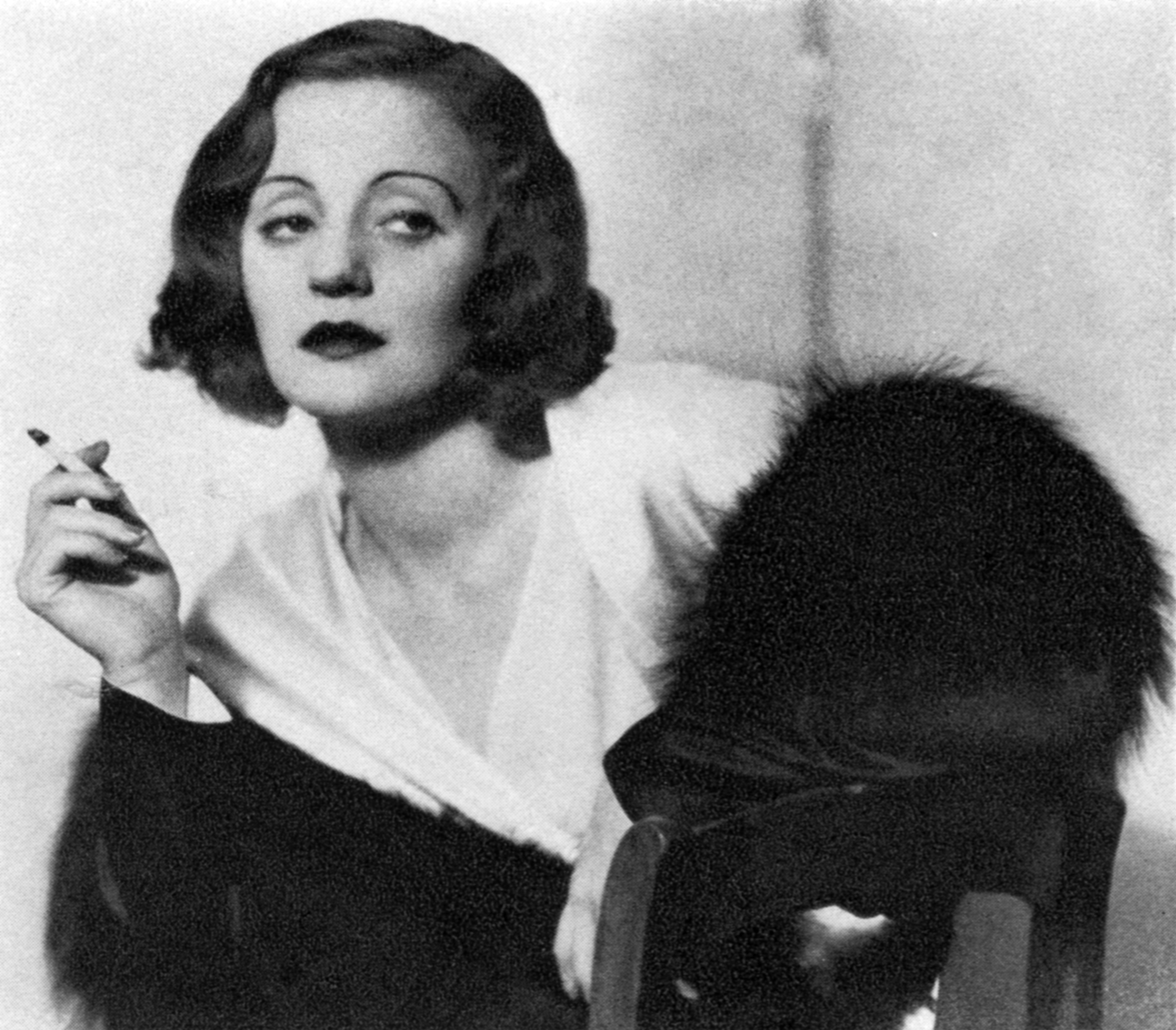 Photograph of Talluluah Bankhead in the 1934 Broadway production Dark Victory